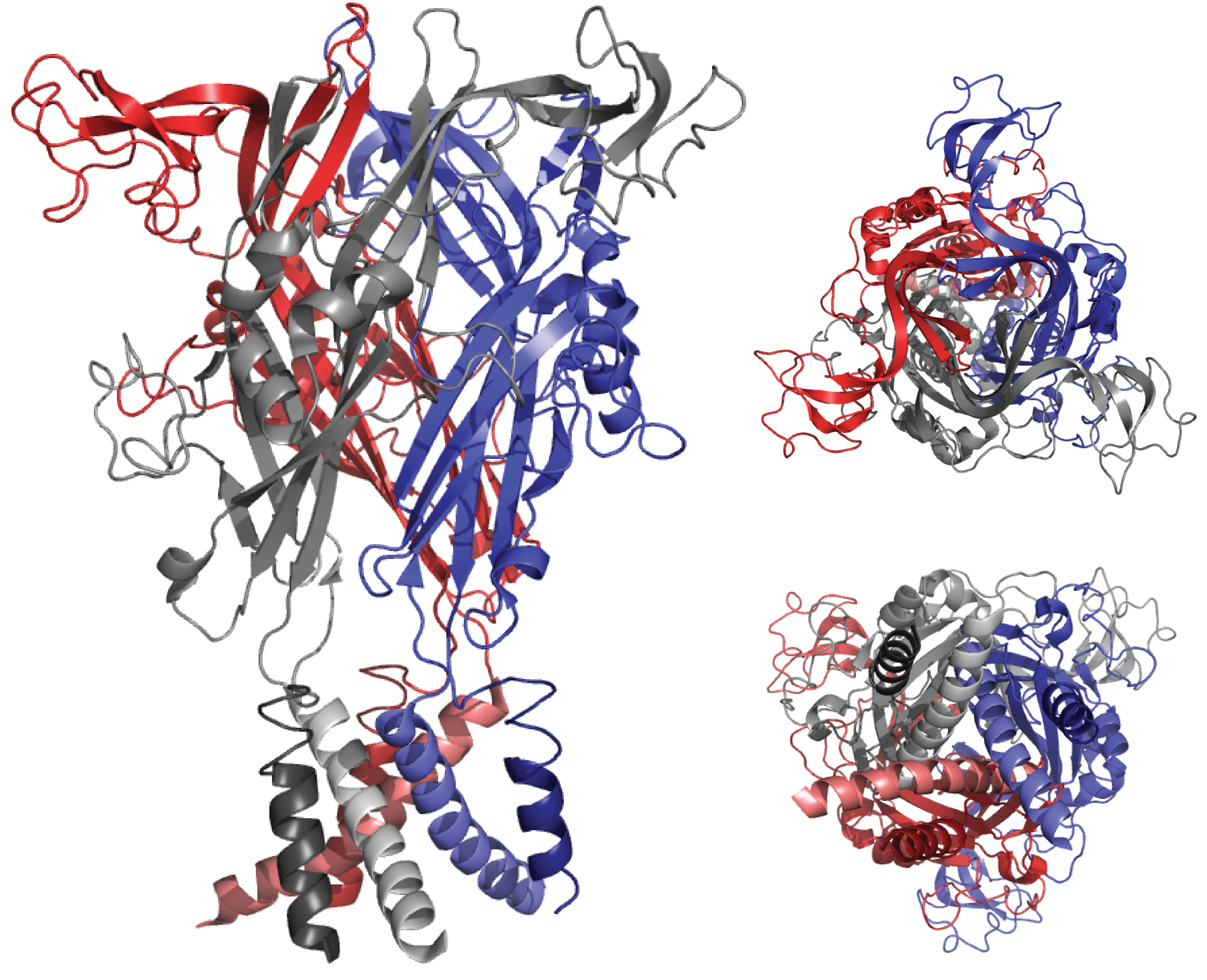 zebrafish P2X4 (truncated) crystal structure